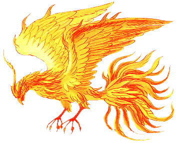 picture of a fenix